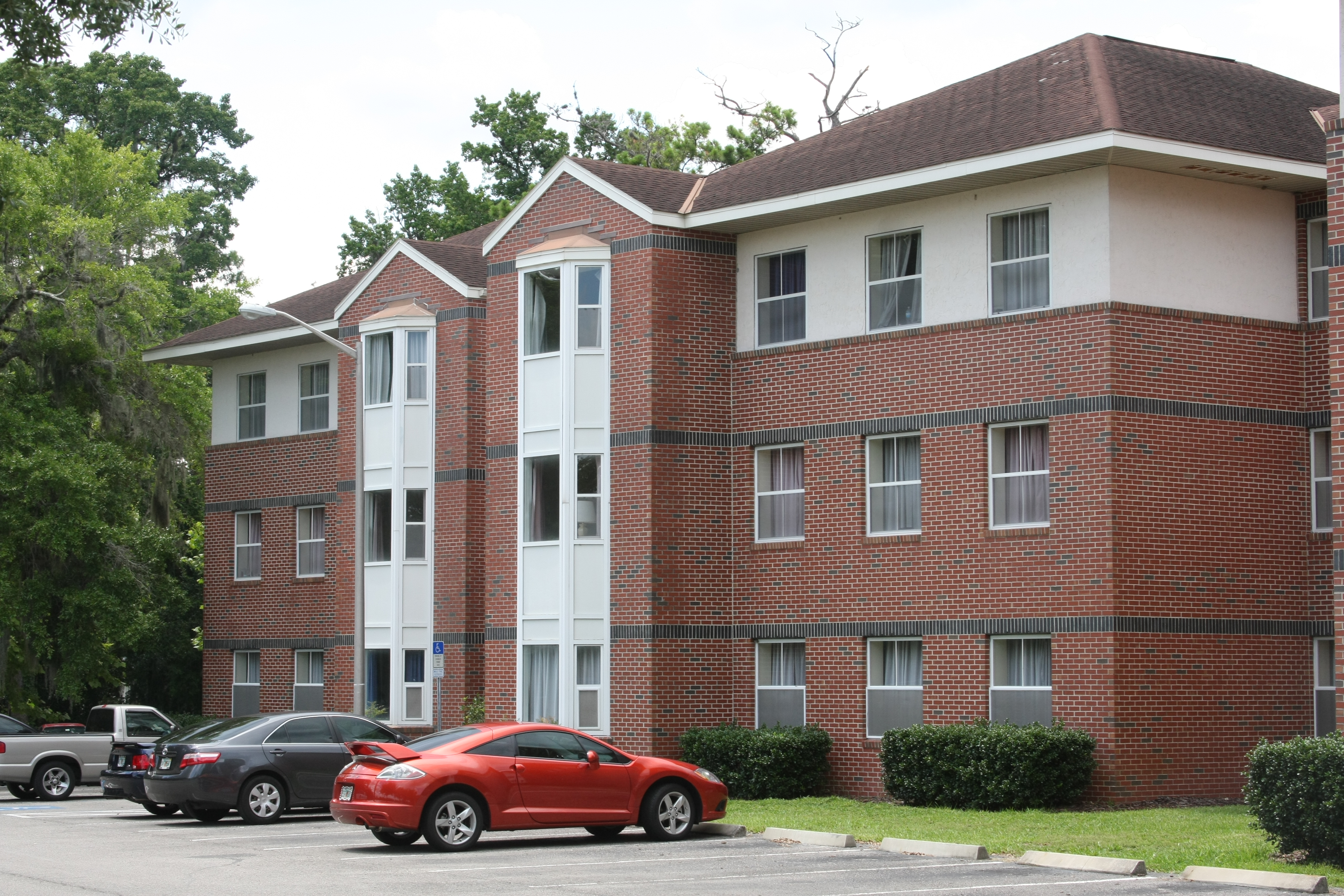 Keys Residential Complex at the University of Florida